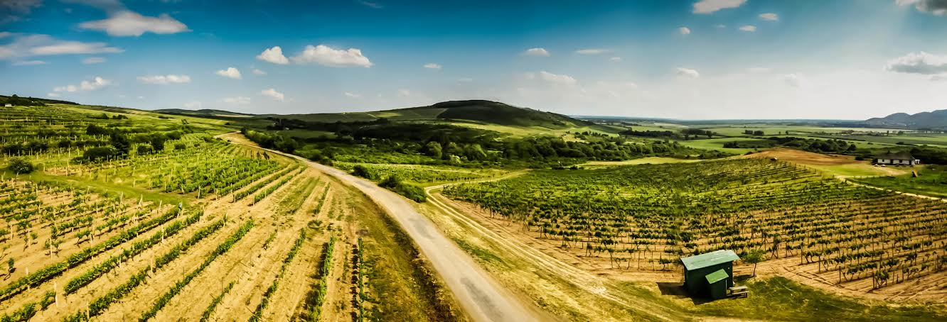 PVineyards in Slovakian occupied part of the Tokaj wine region, taken from viewing tower next to the village of Malá Tŕňa.